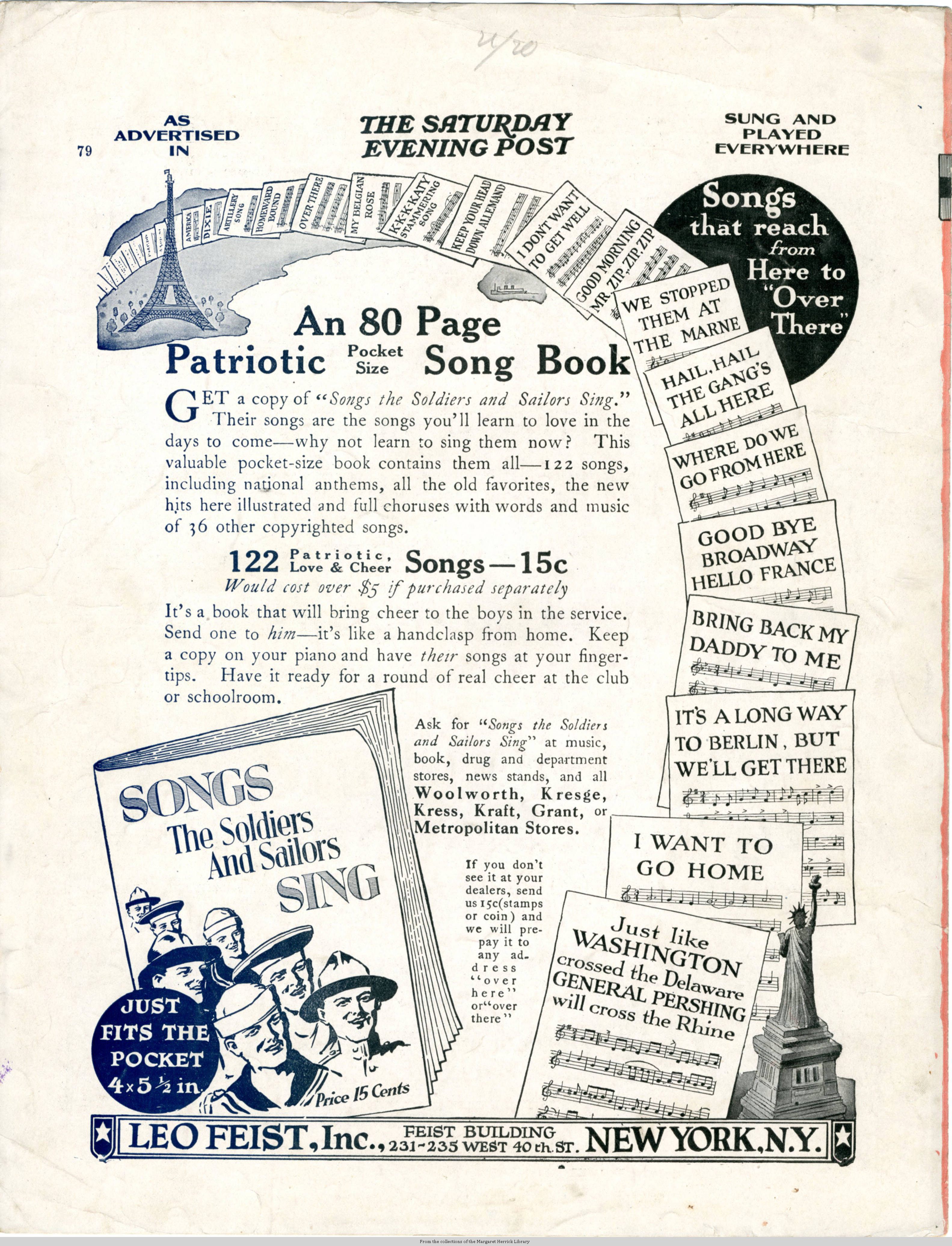 Advertisement appearing on the back cover of sheet music for the song "Bring Back My Daddy To Me", promoting a pocket-sized 80 page book of "Songs the Sailors and Soldiers Sing".